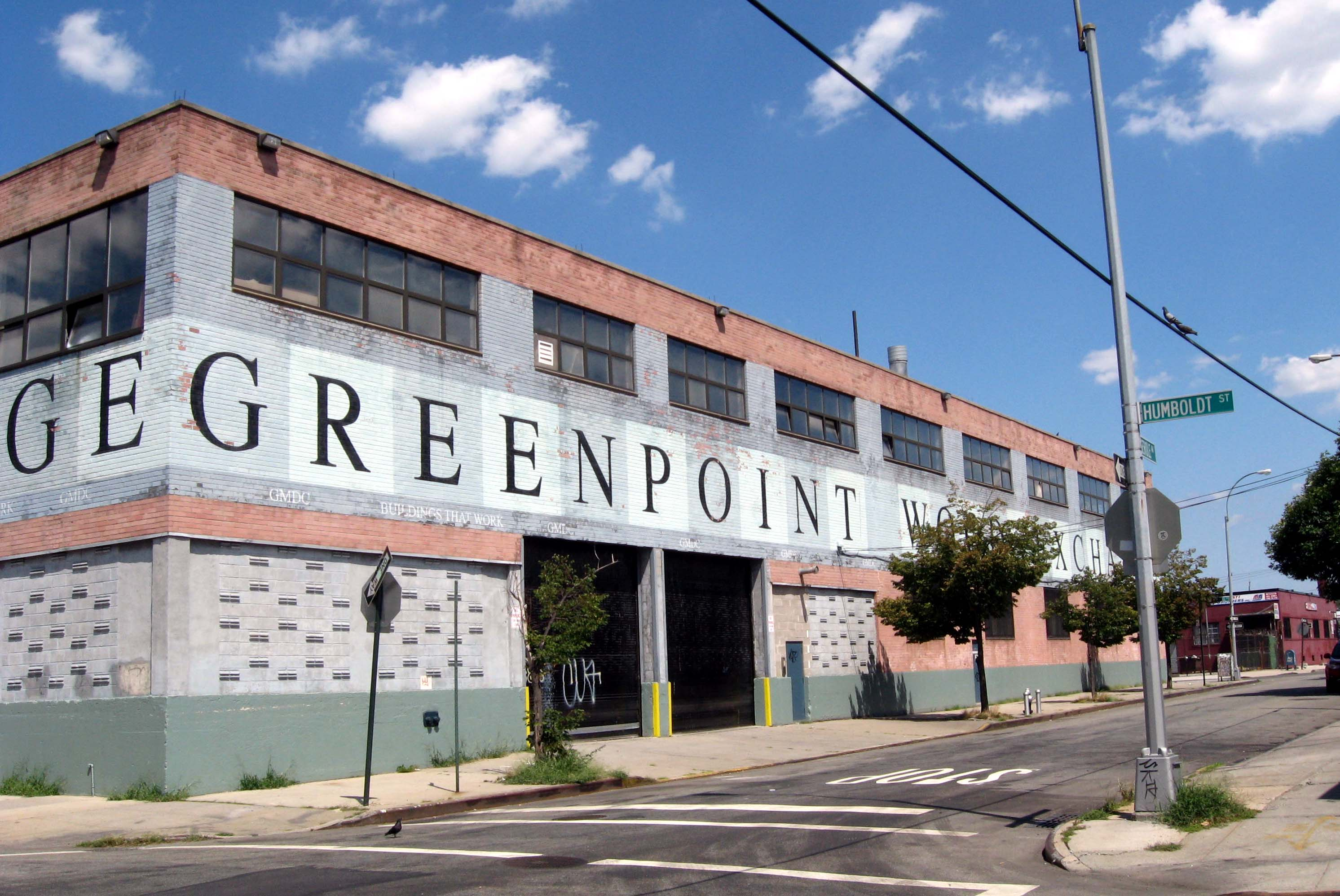 Looking northeast across Humbolt Street and Meserole Avenue at Greenpoint Wood Exchange in Greenpoint, Brooklyn on a sunny midday